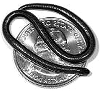 Barbados thread snake - Black and white derivative image